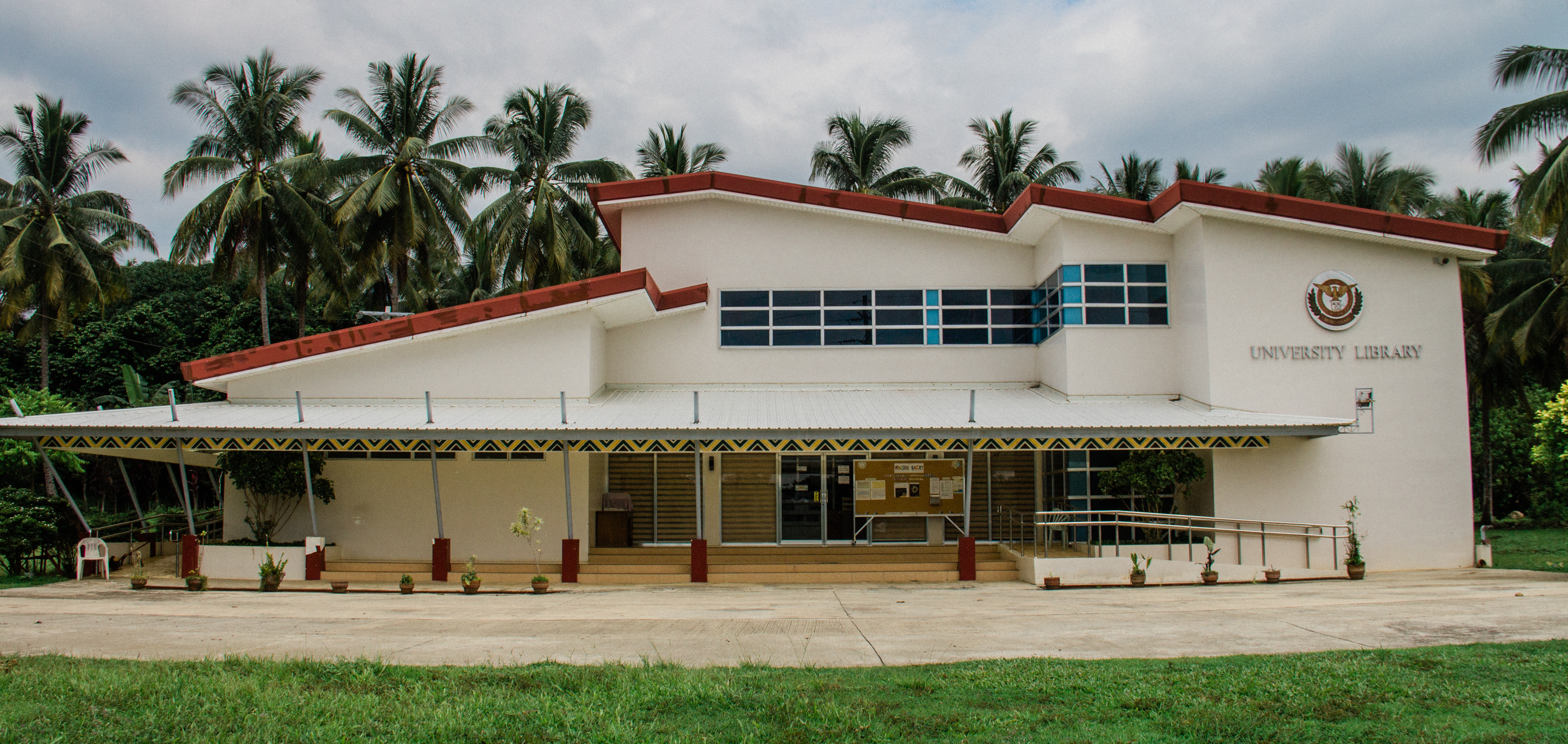 Facade of the UP Mindanao Main Library.